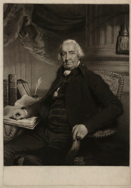 Sir William Addington by William Ward, after Sir Martin Archer Shee mezzotint, published 1795. National Portrait Gallery, London.